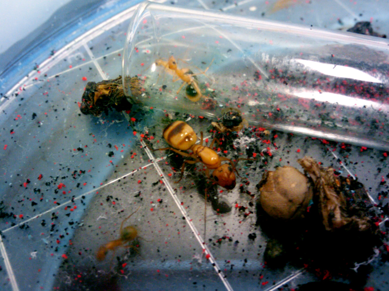 A Camponotus Festinatus Queen